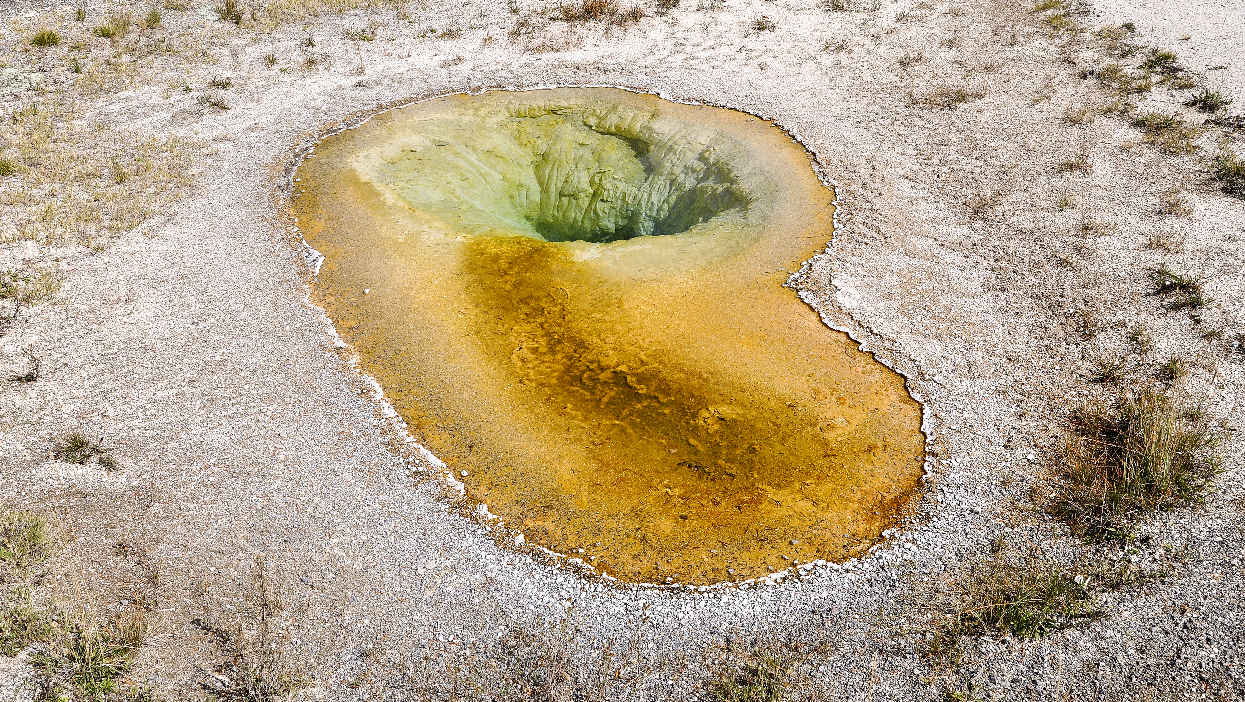 Belgian Pool - Upper Geyser Basin - Yellowstone National Park